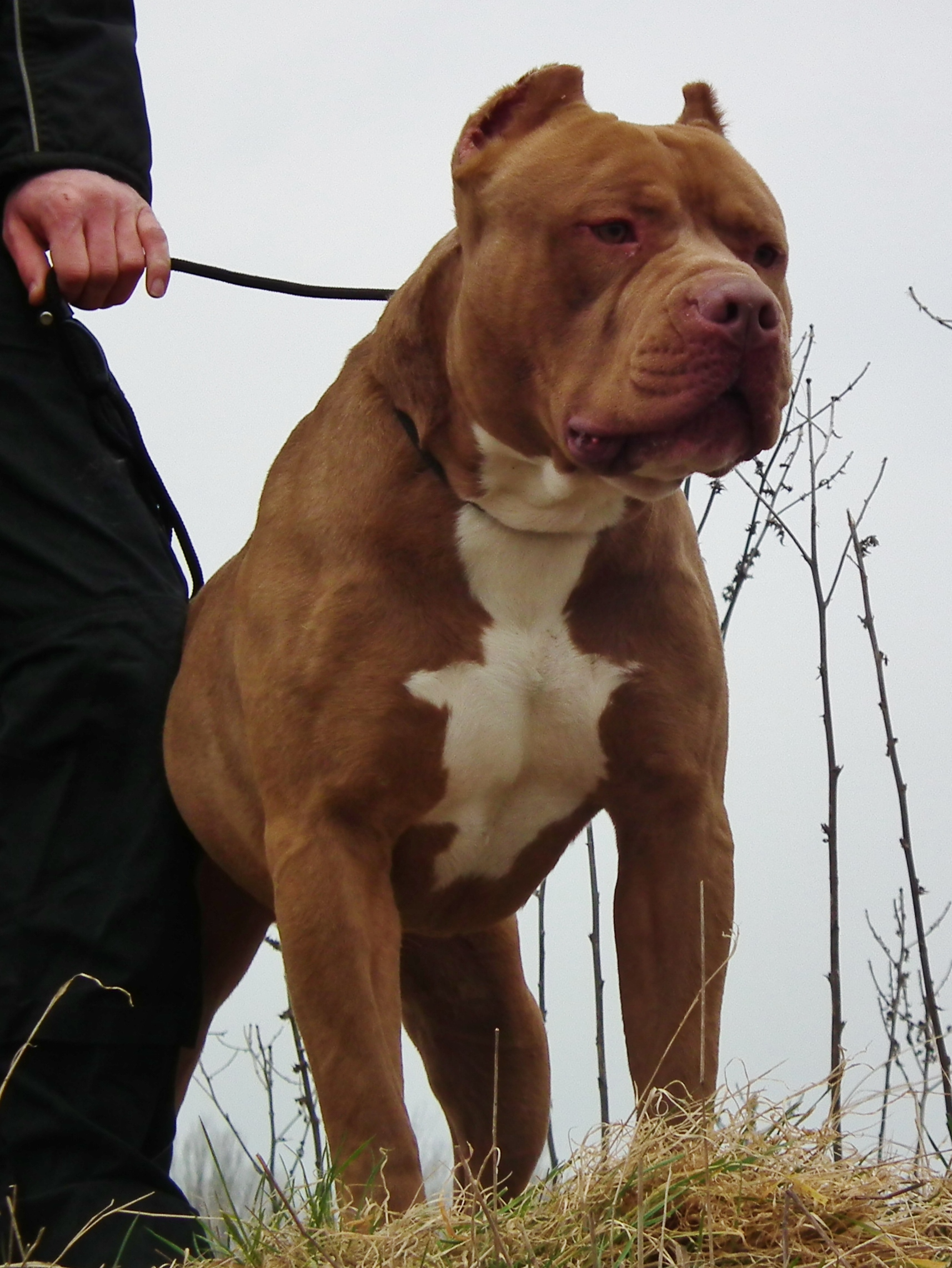 XXL Bully dog, registered name: NEW ERAS KING OF RED SKY. NBBC Liondog